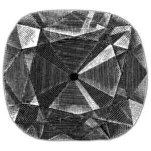 Hope Diamond